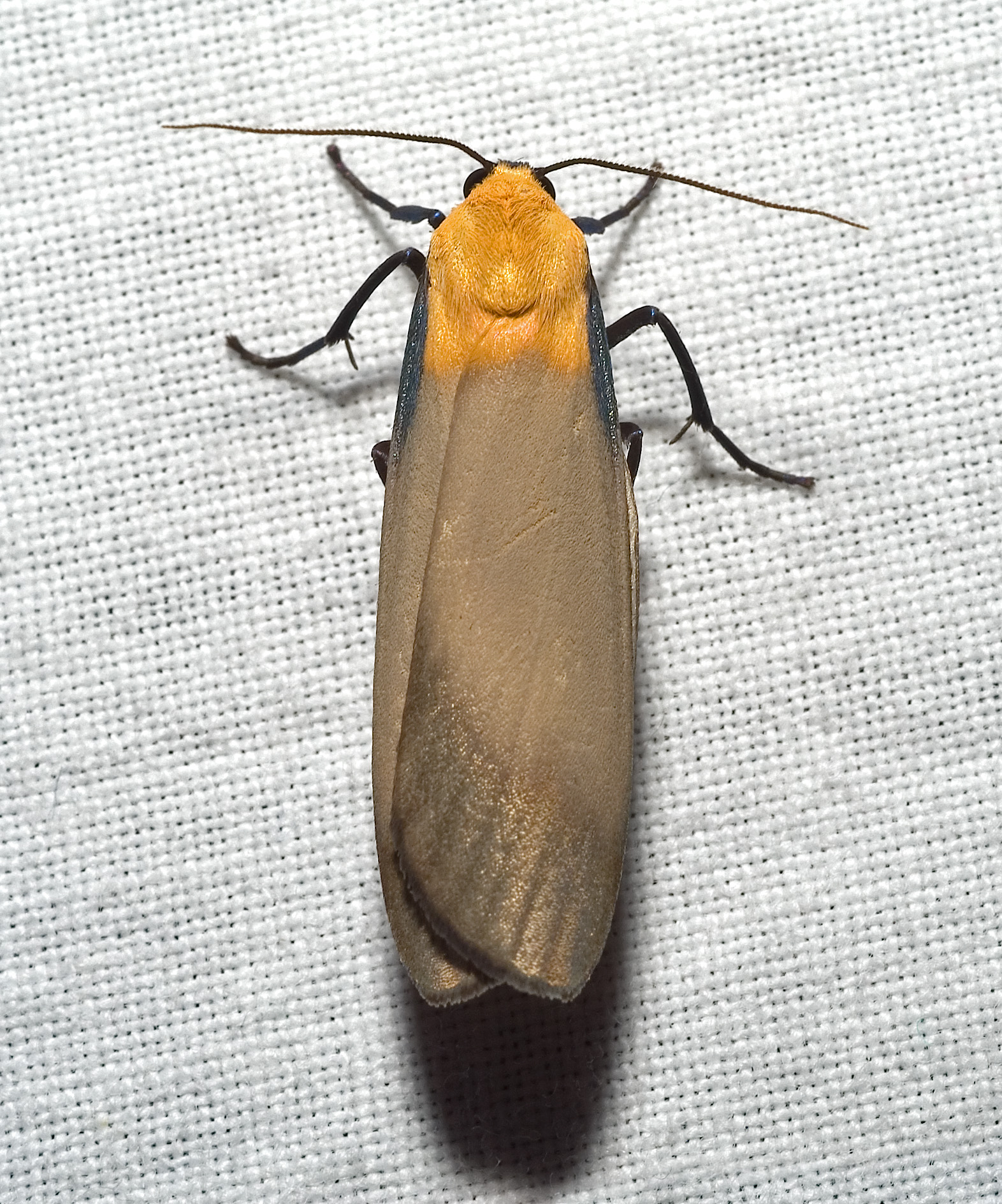 Please report references to kulacgmx.at.